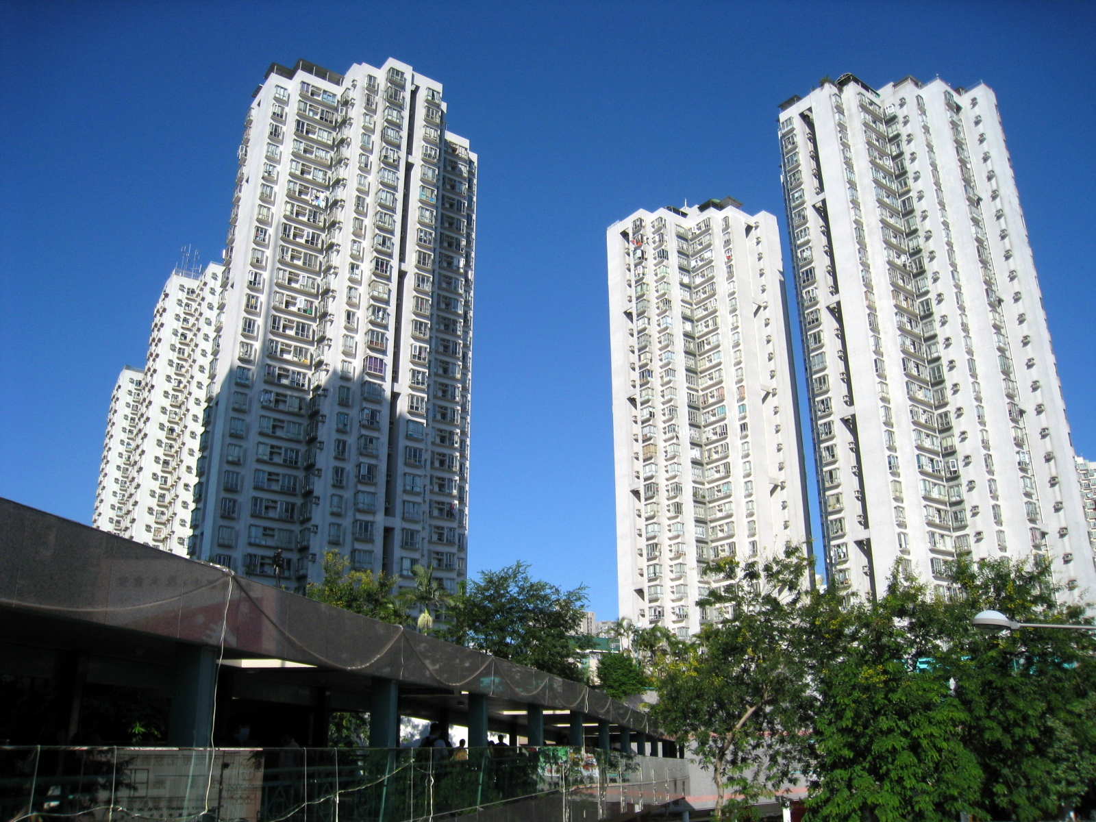 Sheung Shui Metropolis Plaza 新都廣場